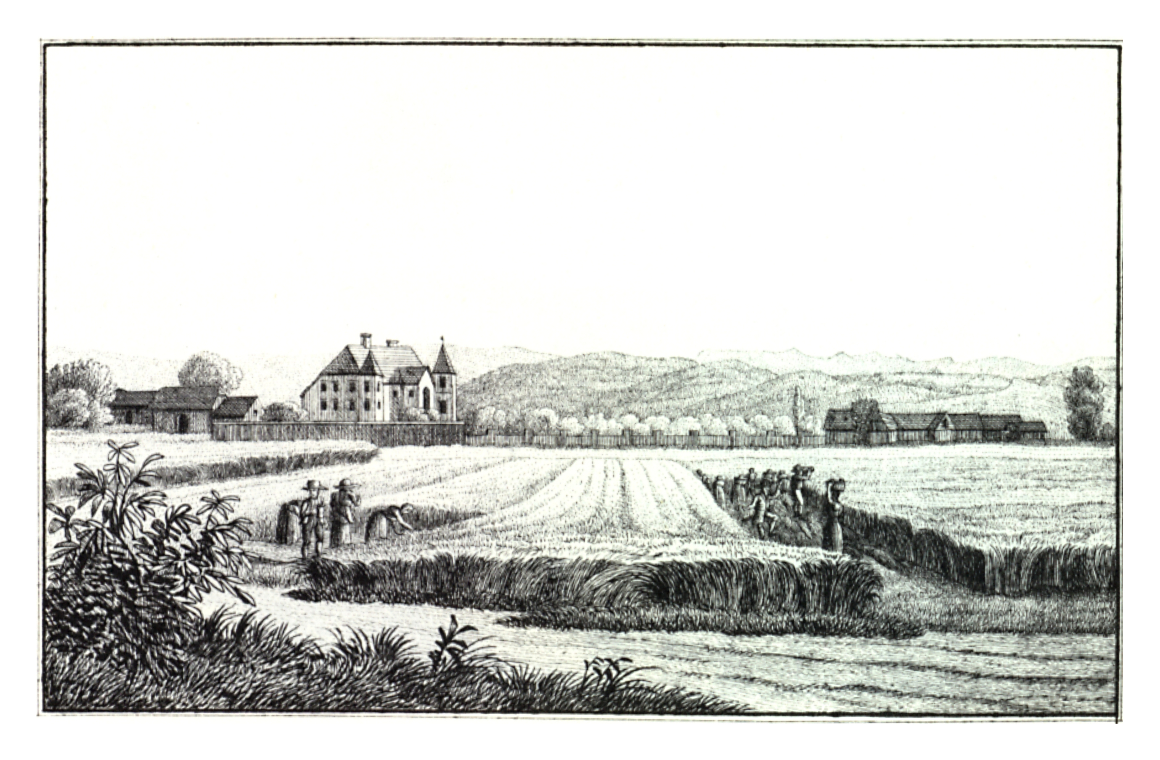 J. F. Kaiser - lithographirte Ansichten der Steyermärkischen Städte, Märkte und Schlösser Graz, 1825 Joseph Franz Kaiser (1786–1859) Alternative names J. F. KaiserDescriptionAustrian printer and editorDate of birth/death 11 March 1786 19 September 1859Location of birth/death Graz (Styria) GrazAuthority control : Q1499963 VIAF: 30629353 ISNI: 0000 0000 3083 0153 LCCN: n87141671 GND: 129880159 NLP: A24960305 WorldCat creator QS:P170,Q1499963 Scanprojekt Community Projektbudget 2012 This scan or this PDF-file was created within the GLAM-project Bookscanning, supported by Wikimedia Germany and Wikimedia Austria as a part of the community-project to capture books, documents and pictures which are not eligible to copyright or for which the copyright has expired. This document describes or depicts an object which is located in Austria today. Send requests for uncompressed scans to Hubertl. This work is in the public domain in its country of origin and other countries and areas where the copyright term is the author's life plus 100 years or fewer. You must also include a United States public domain tag to indicate why this work is in the public domain in the United States. This file has been identified as being free of known restrictions under copyright law, including all related and neighboring rights.